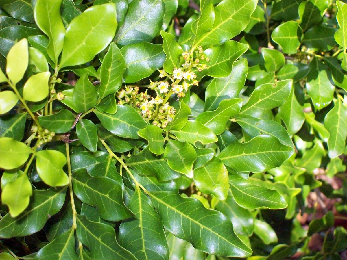 Toechima tenax at Coffs Harbour Botanic Gardens, Australia